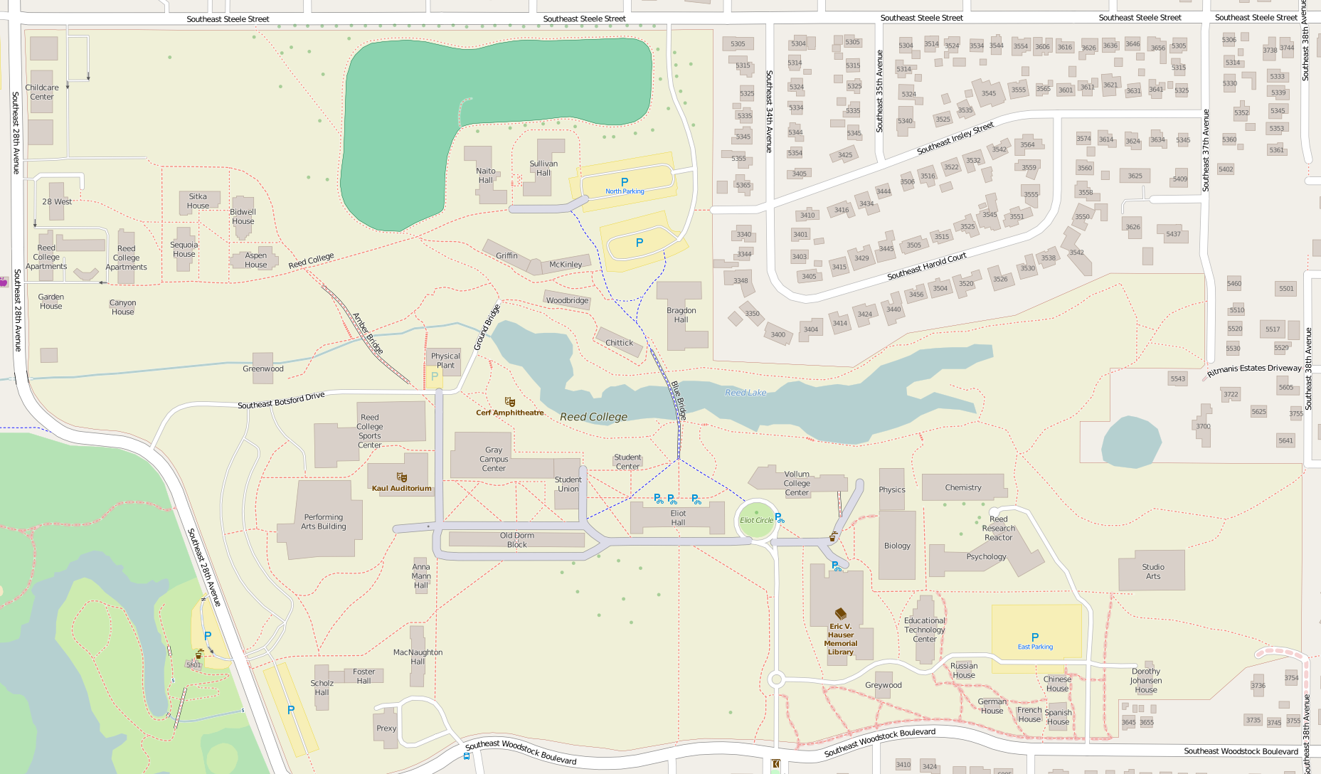 Map of Reed College, Portland, Oregon. This map of Reed_College_Portland_OR was created from OpenStreetMap project data, collected by the community. This map may be incomplete, and may contain errors. Don't rely solely on it for navigation.